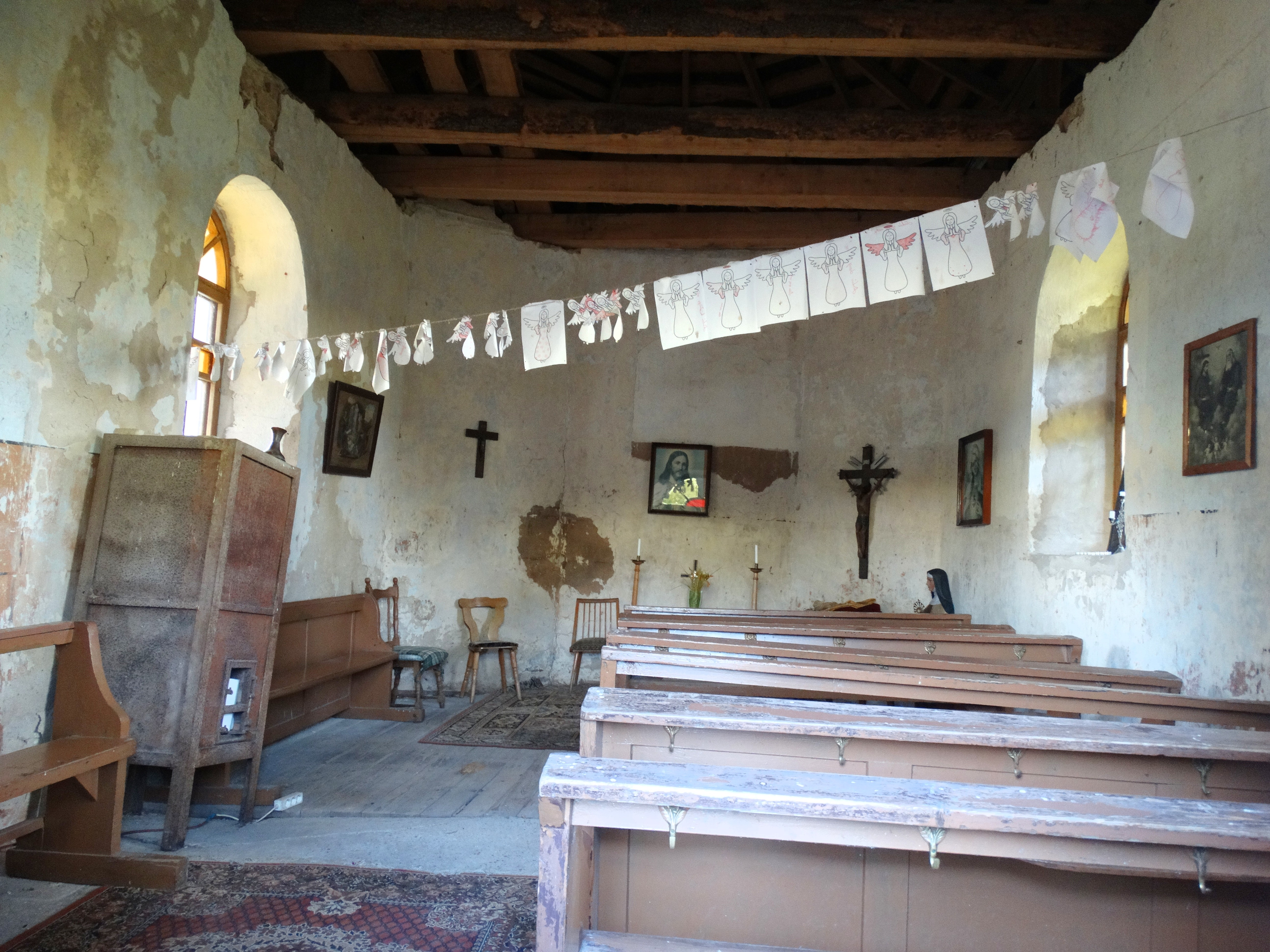 Katauskiai chapel, Raseiniai District, Lithuania